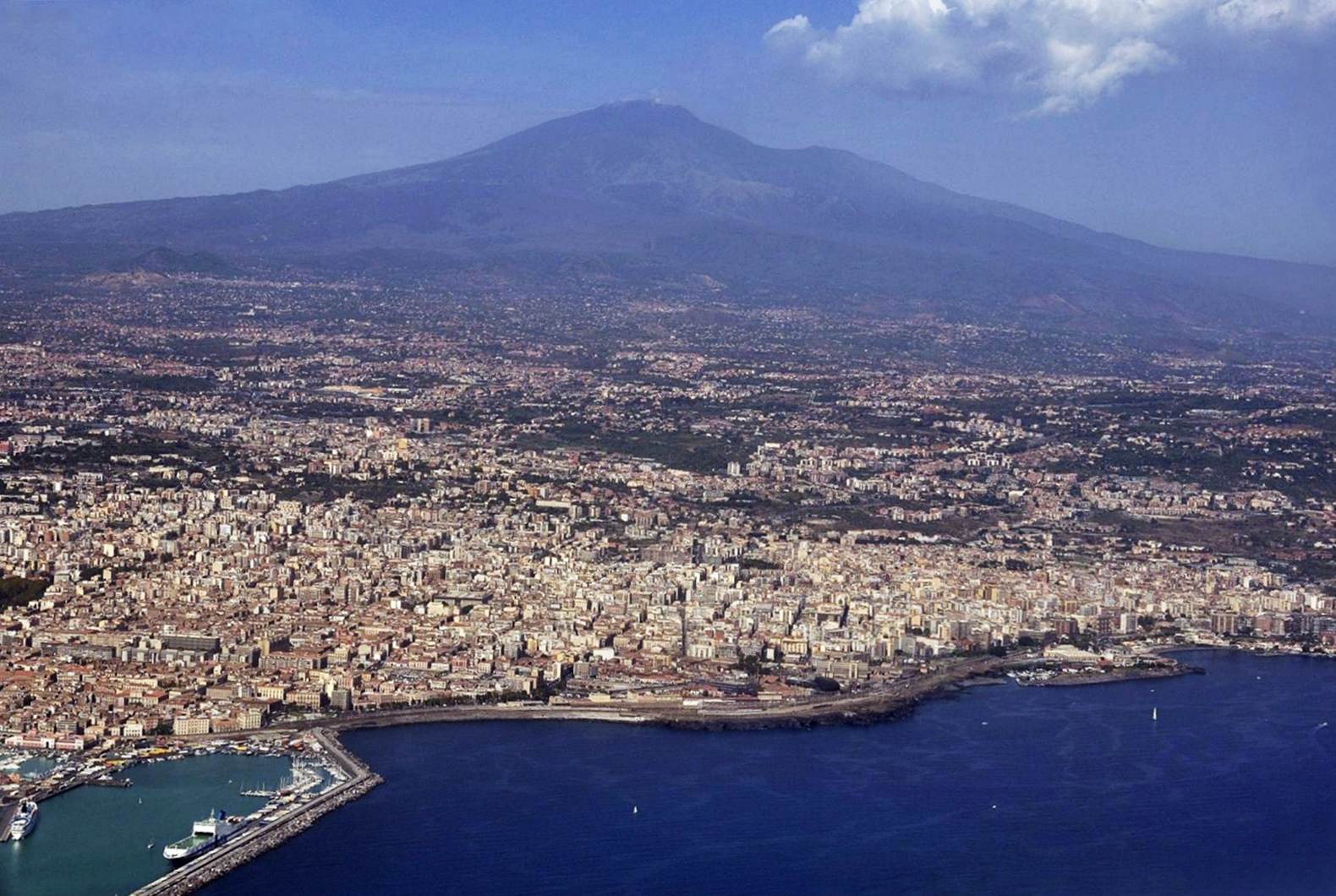 A journey to the Aeolian islands.